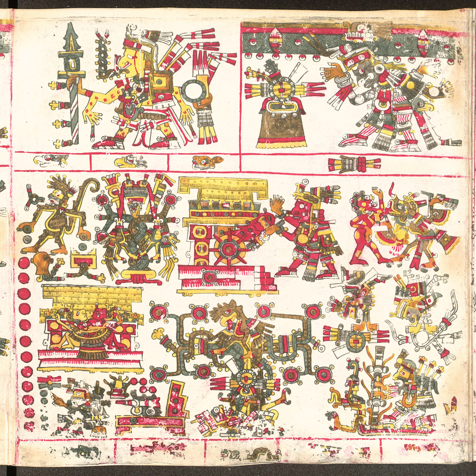 Page 49 of the Codex Borgia.